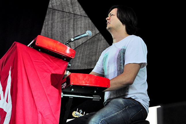 The Cat Empire, keyboardist, at the West Coast Blues N Roots Festival, 17 April 2001